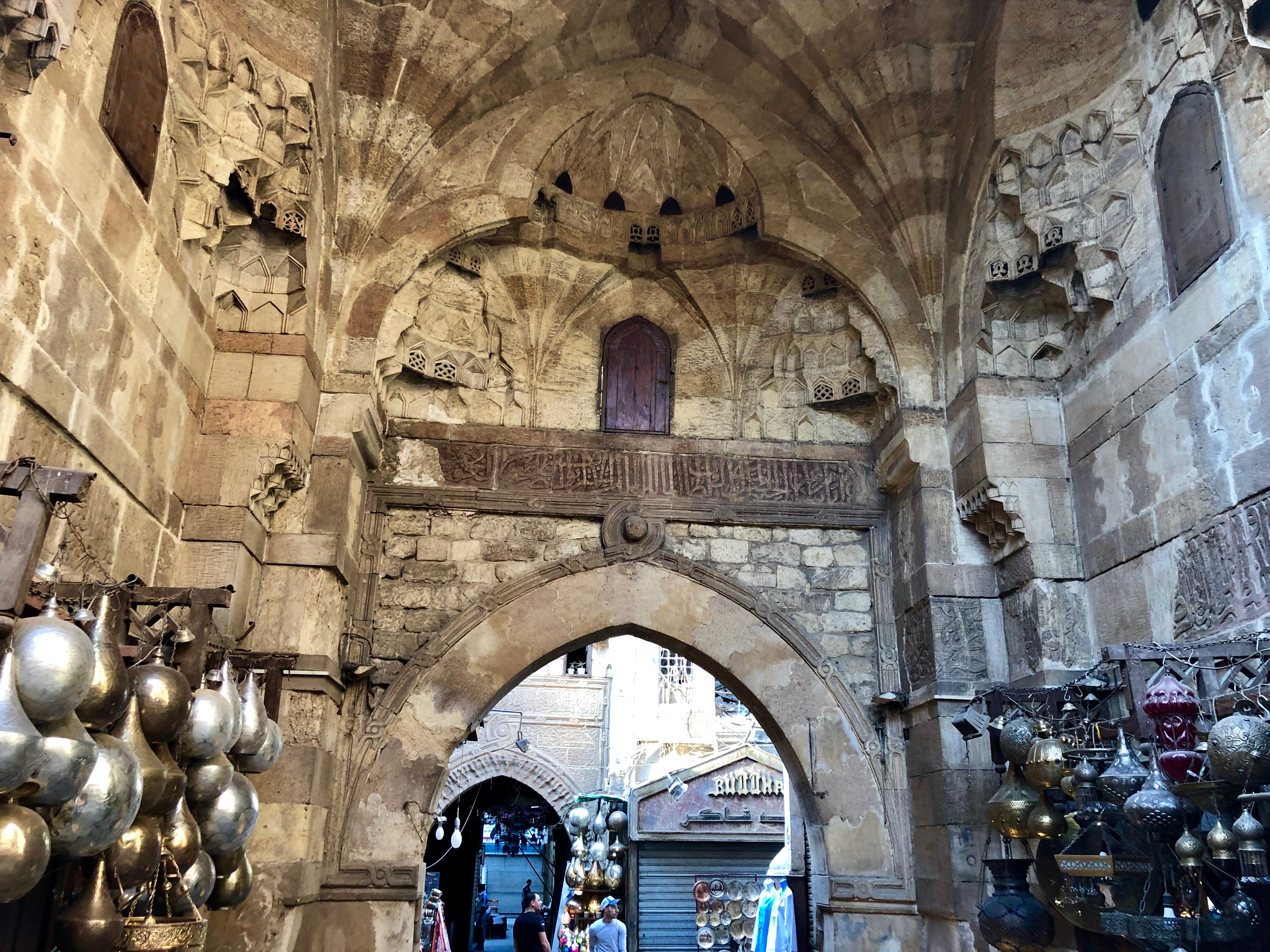 Cairo (al-Qahira), capital of Egypt